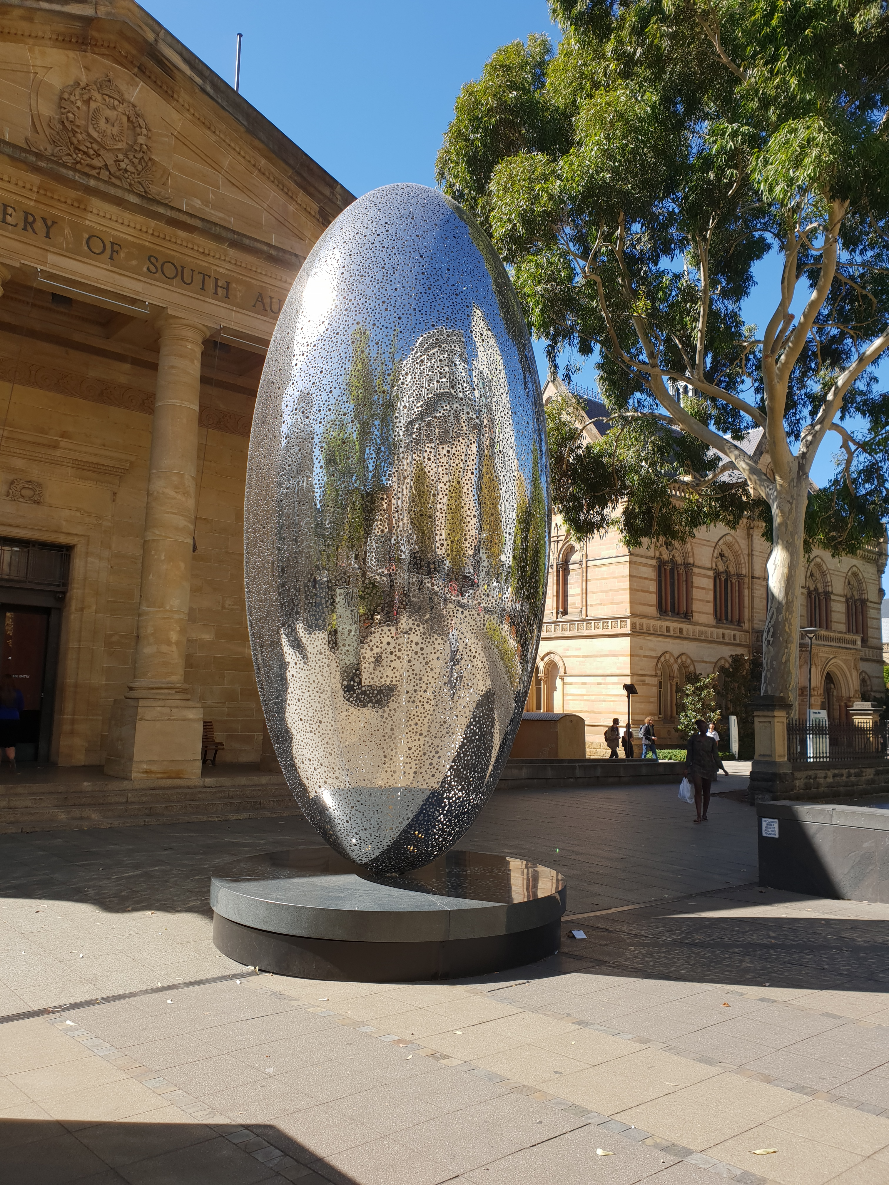 The Life of Stars, sculpture by Lindy Lee for the 2018 Adelaide Biennial of Australian Art, located in the forecourt of the Art Gallery of South Australia. Side view.